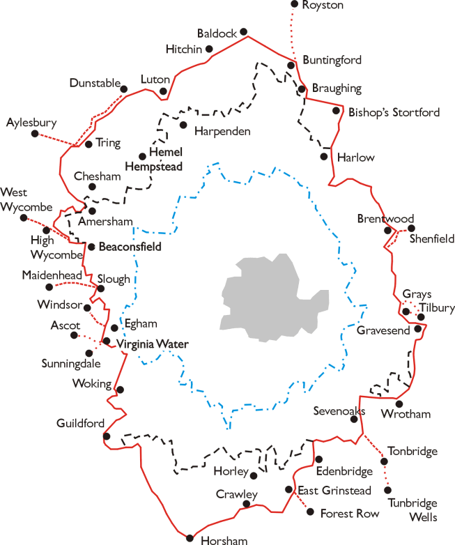 Map of the area of the London Passenger Transport Board 1933 - 1947. Simplified map based on leaflet issued by LPTB, July 1933. The London Passenger Transport Area is outlined in red, with the board's "special area", in which it had a monoply of public transport services, indicated by a broken black line. The boundary of the Metropolitan Police District is shown as a blue broken line, and the County of London is shaded in grey. Broken red lines indicate roads over which the Board was allowed to run services outside its area.